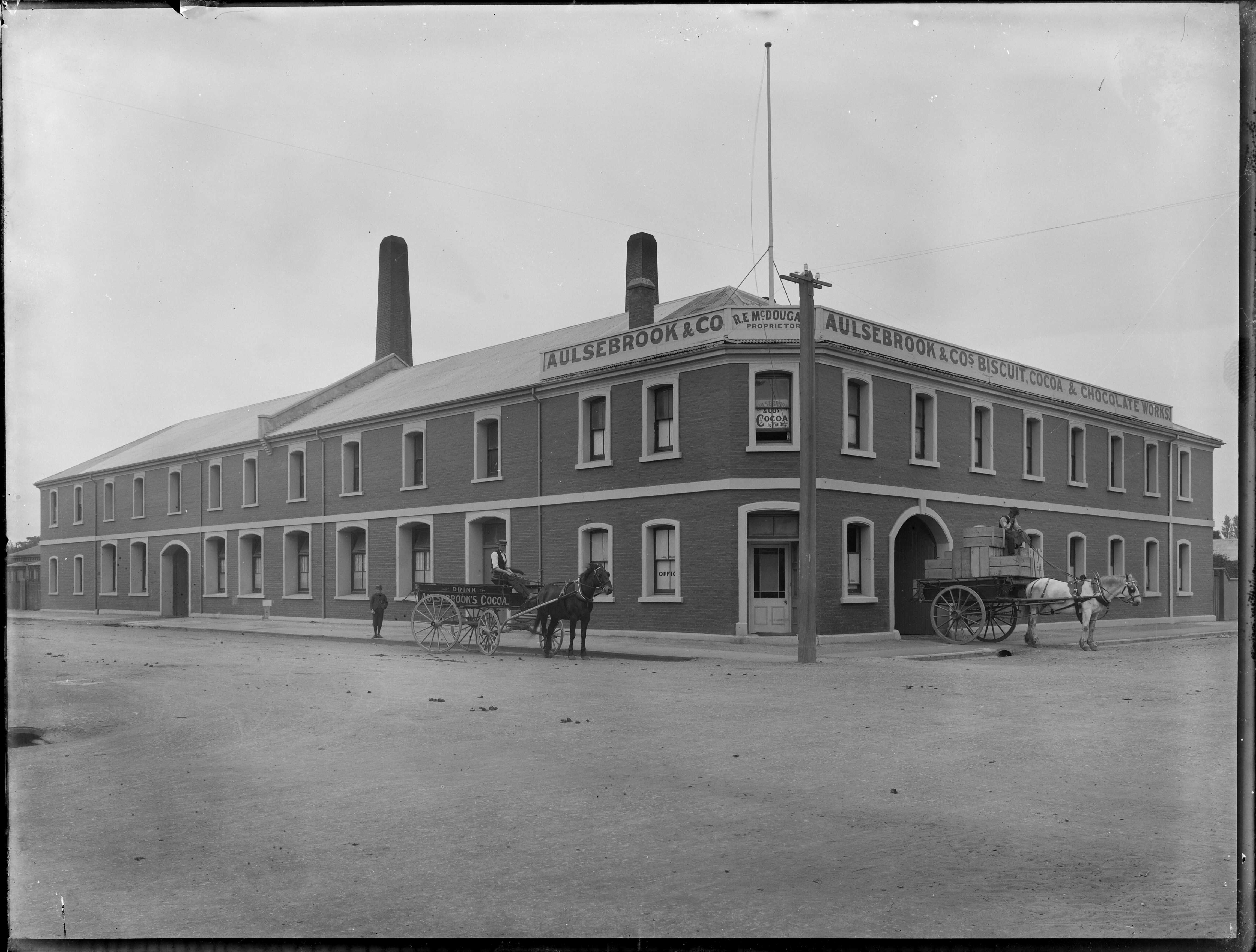 New Zealand International Exhibition of 1906-1907, Christchurch, Aulsebrook & Co, stand. Webb, Steffano, 1880-1967 : Collection of negatives. Ref: 1/1-005016-G. Alexander Turnbull Library, Wellington, New Zealand.